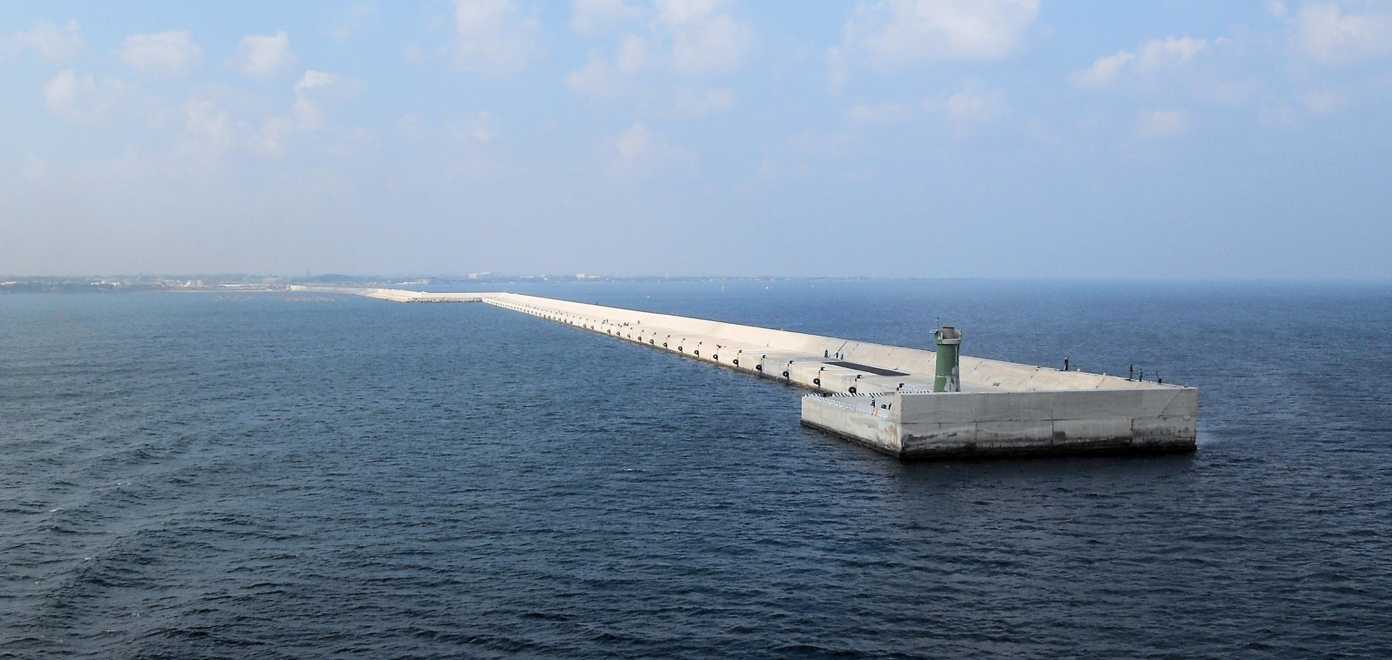 New pier in the port of Brindisi, Italy